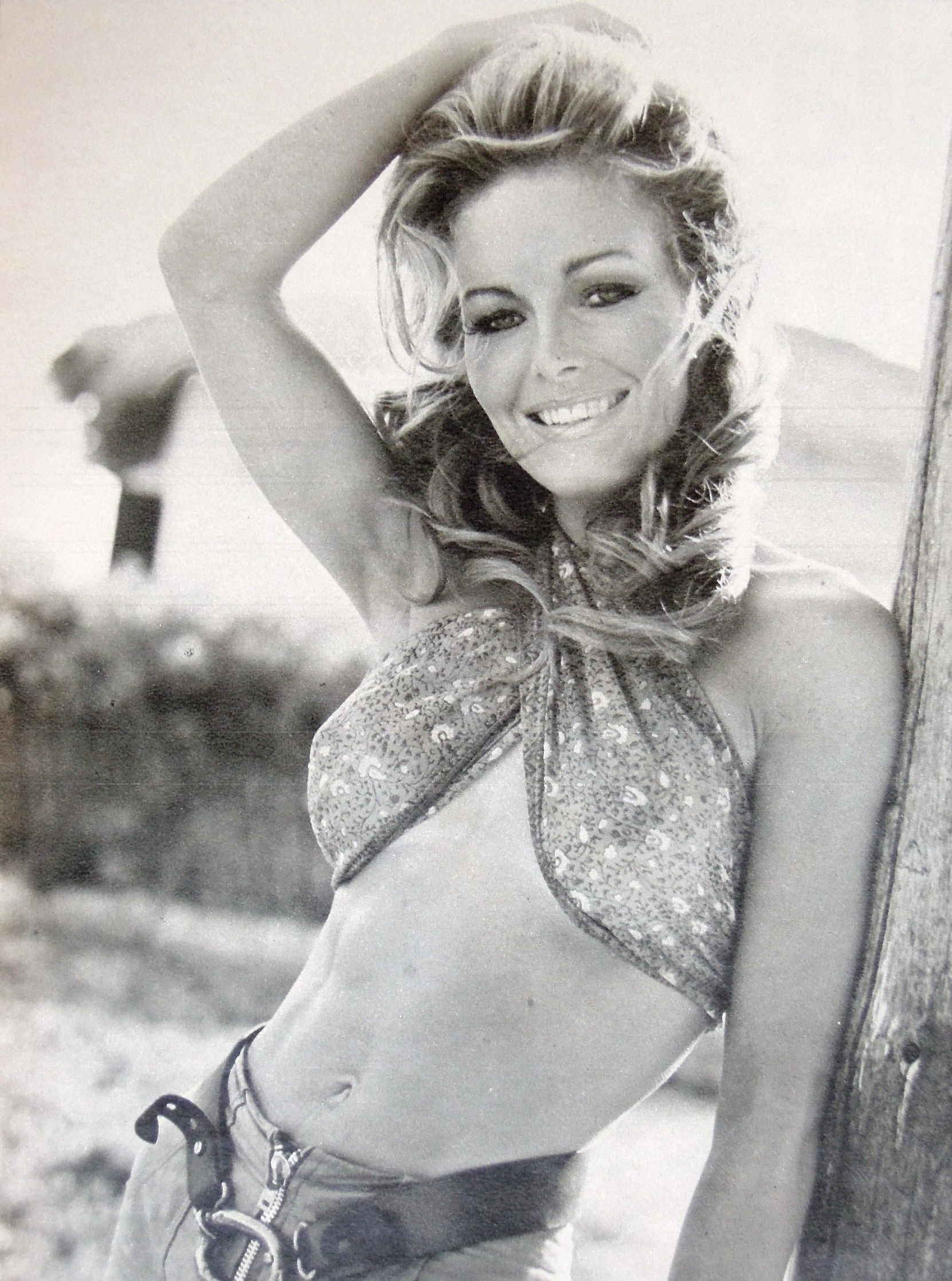 Italian-based Swedish actress Anita Strindberg